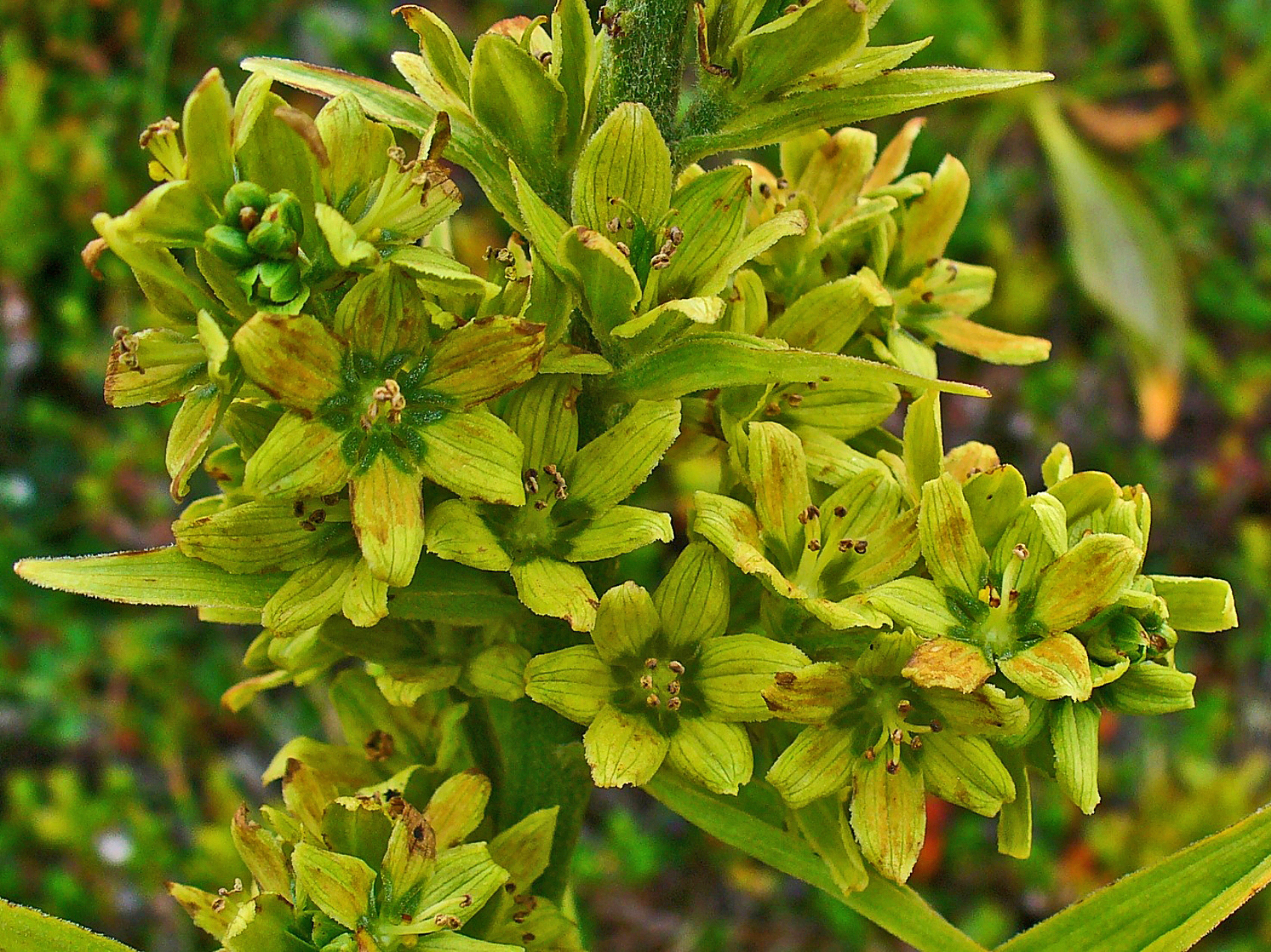 Veratrum album ssp. lobelianum, Melanthiaceae, European White Hellebore, White Veratrum, flowers. Muottas Muragl, Engadin, Switzerland, altitude ca. 2400 m.